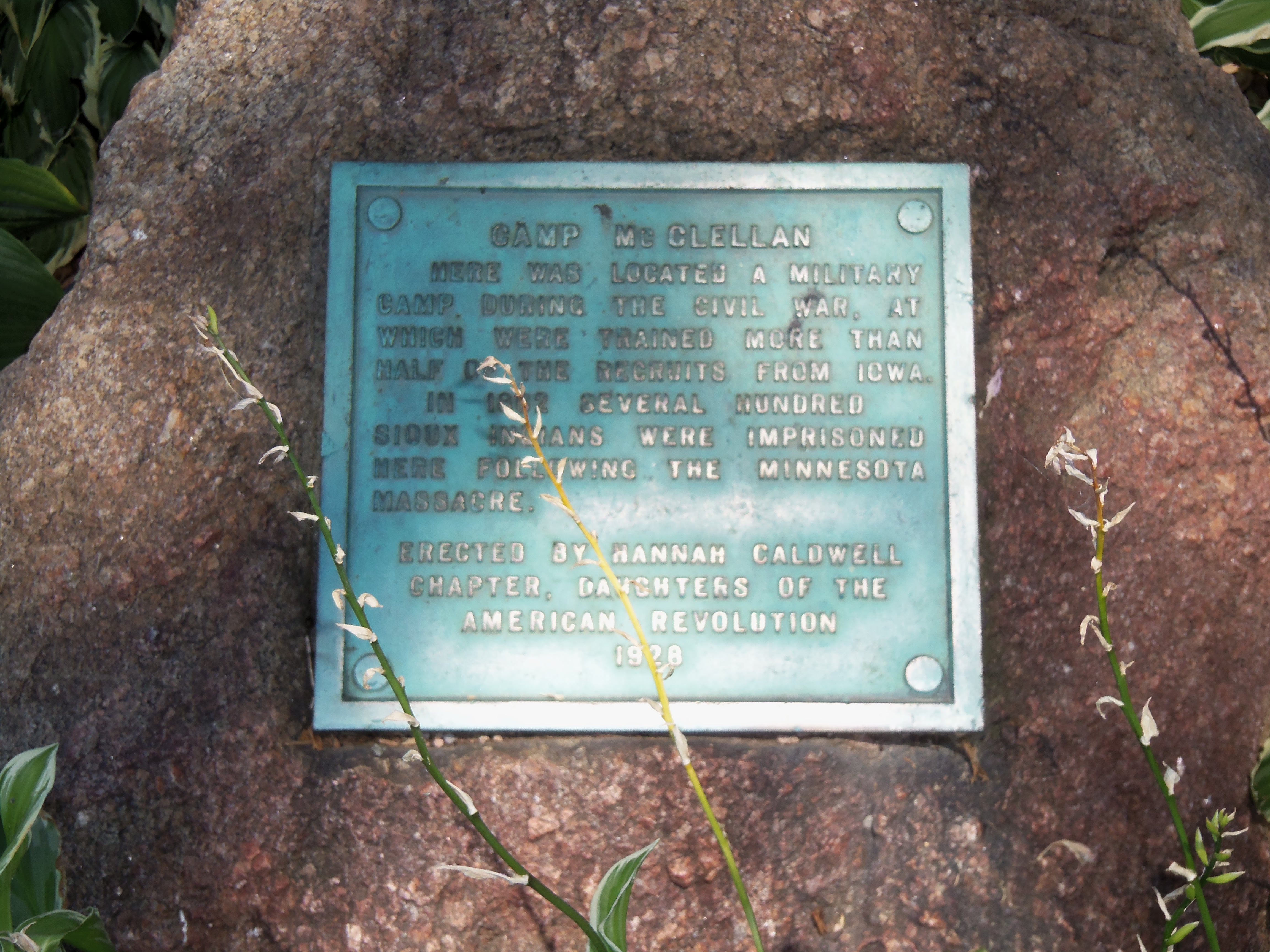 Marker that commemorates the location of Camp McClellan, a Civil War Union Army camp, in Lindsay Park, Davenport, Iowa.